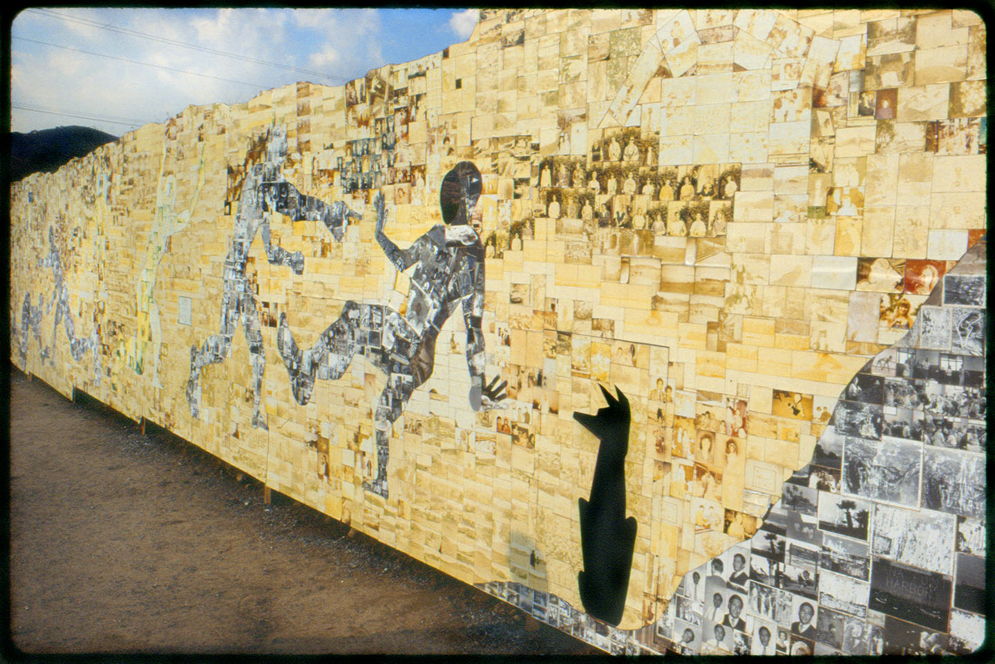 Solar Plexus at The Tell, Fall 1989